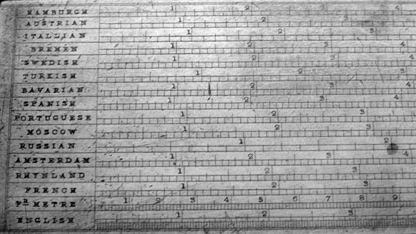 Mid-19th century tool for converting between different standards of the inch - in the Museum of the History of Science, Oxford Scales shown: Hamburgh - Inch divided into 8 parts. 1 inch ≈ 23.2 mm Austrian - Inch divided into 8 parts. 1 inch ≈ 25.8 mm Itallian - Inch divided into 8 parts. 1 inch ≈ 28.3 mm Bremen - Inch divided into 10 parts. 1 inch ≈ 23.7 mm Swedish - Inch divided into 12 parts. 1 inch ≈ 24.3 mm Turkish - Inch divided into 12 parts. 1 inch ≈ 31.3 mm Bavarian - Inch divided into 12 parts. 1 inch ≈ 24.0 mm Spanish - Inch divided into 12 parts. 1 inch ≈ 23.0 mm Portuguese - Inch divided into 12 parts. 1 inch ≈ 27.0 mm Moscow - Inch divided into 12 parts. 1 inch ≈ 27.7 mm Russian - Vershok divided into 8 parts. 1 vershok ≈ 44.1 mm Amsterdam - Inch divided into 12 parts. 1 inch ≈ 23.5 mm Rhynland - Inch divided into 12 parts. 1 inch ≈ 26.1 mm French - Inch divided into 12 parts. 1 inch ≈ 27.0 mm Fr. Metre - Centimetres divided into Millimetres. English - Inch divided into 32 parts. 1 inch ≈ 25.3 mm